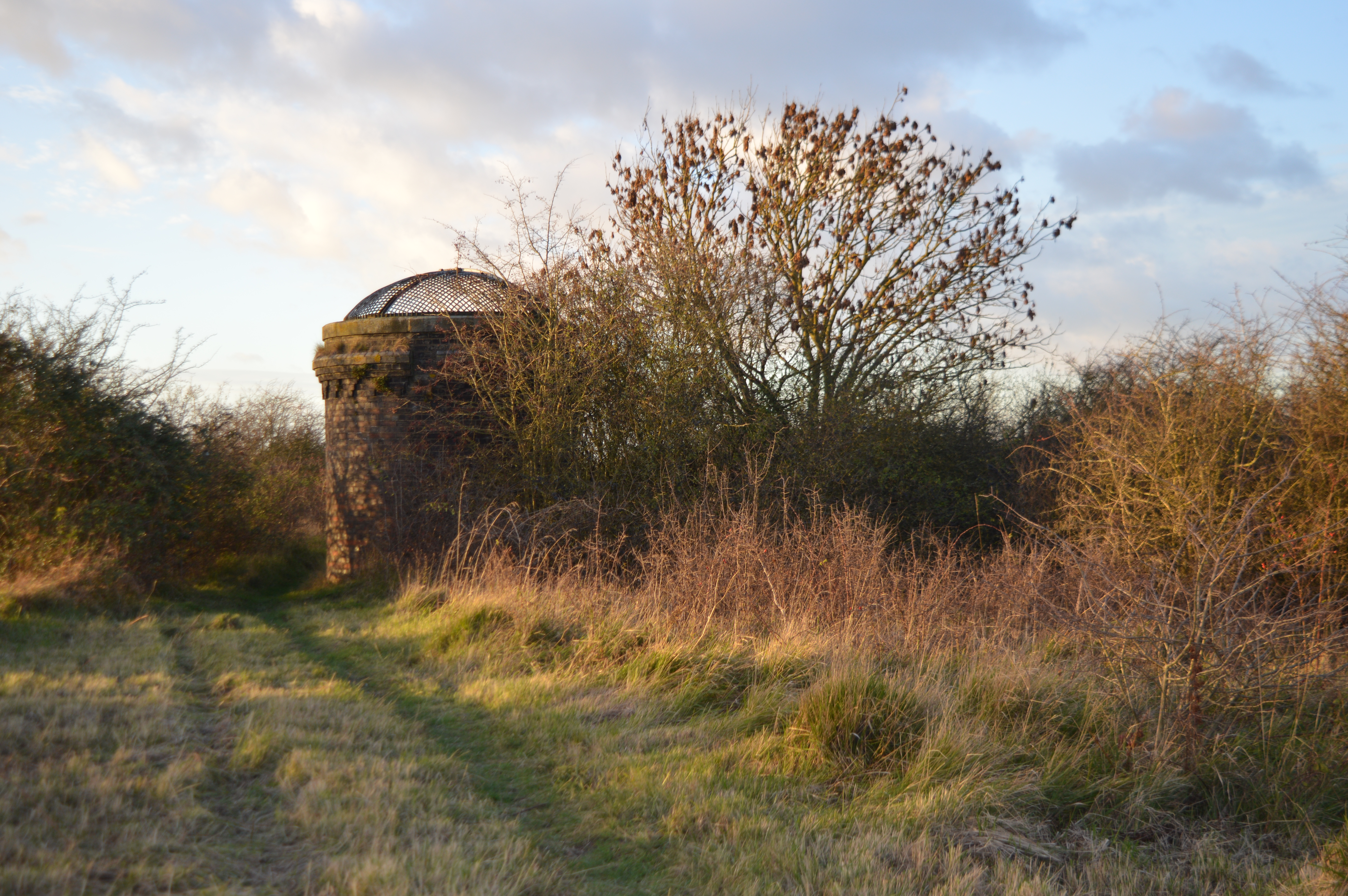 Sharnbrook Summit, a nature reserve near Sharnbrook in Bedfordshire managed by the Wildlife Trust for Bedfordshire, Cambidgeshire and Northamptonshire